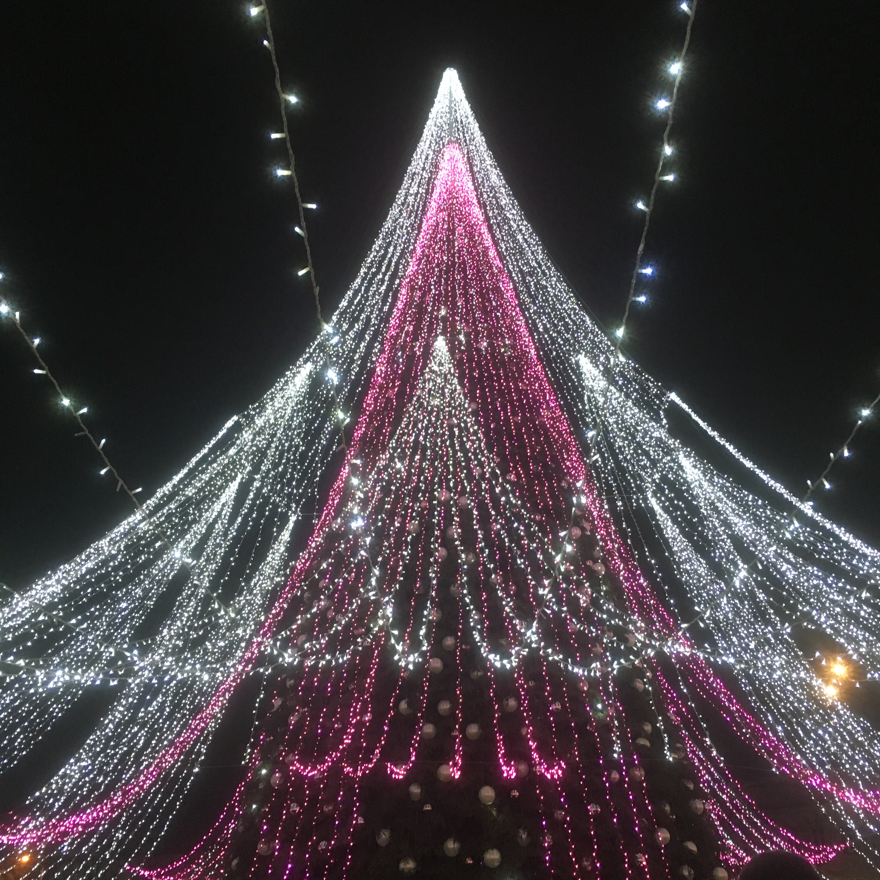 A Christmas tree in Vilnius old town, Lithuania, 2017